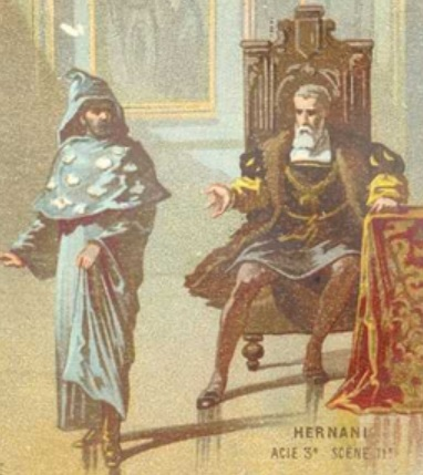 Hernani-Hugo play-act 3